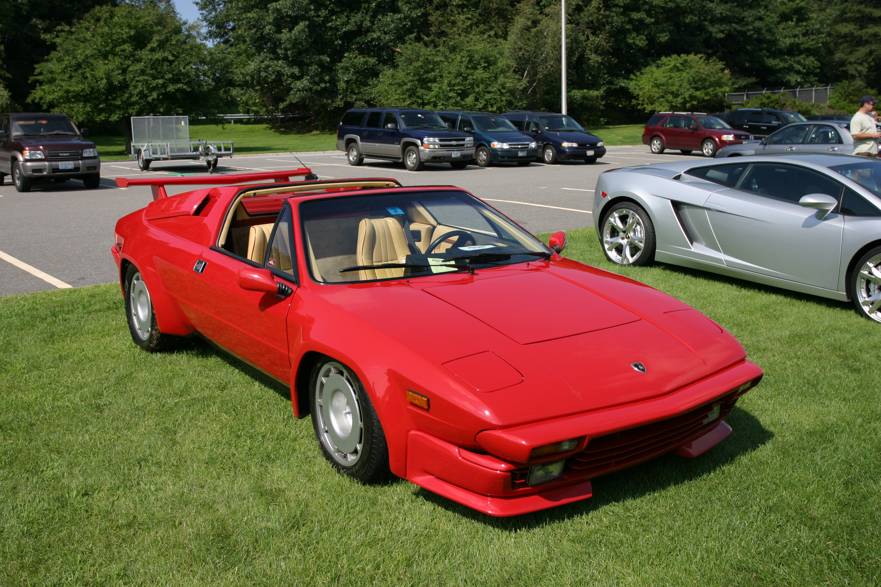 Lamborghini Jalpa, photographed at the Northeast Exotic Car Show on the grounds of the Anheuser-Busch Brewery in Merrimack, New Hampshire.